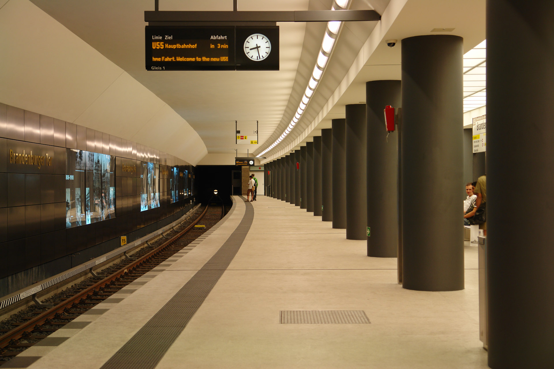 End of the Line (2009).